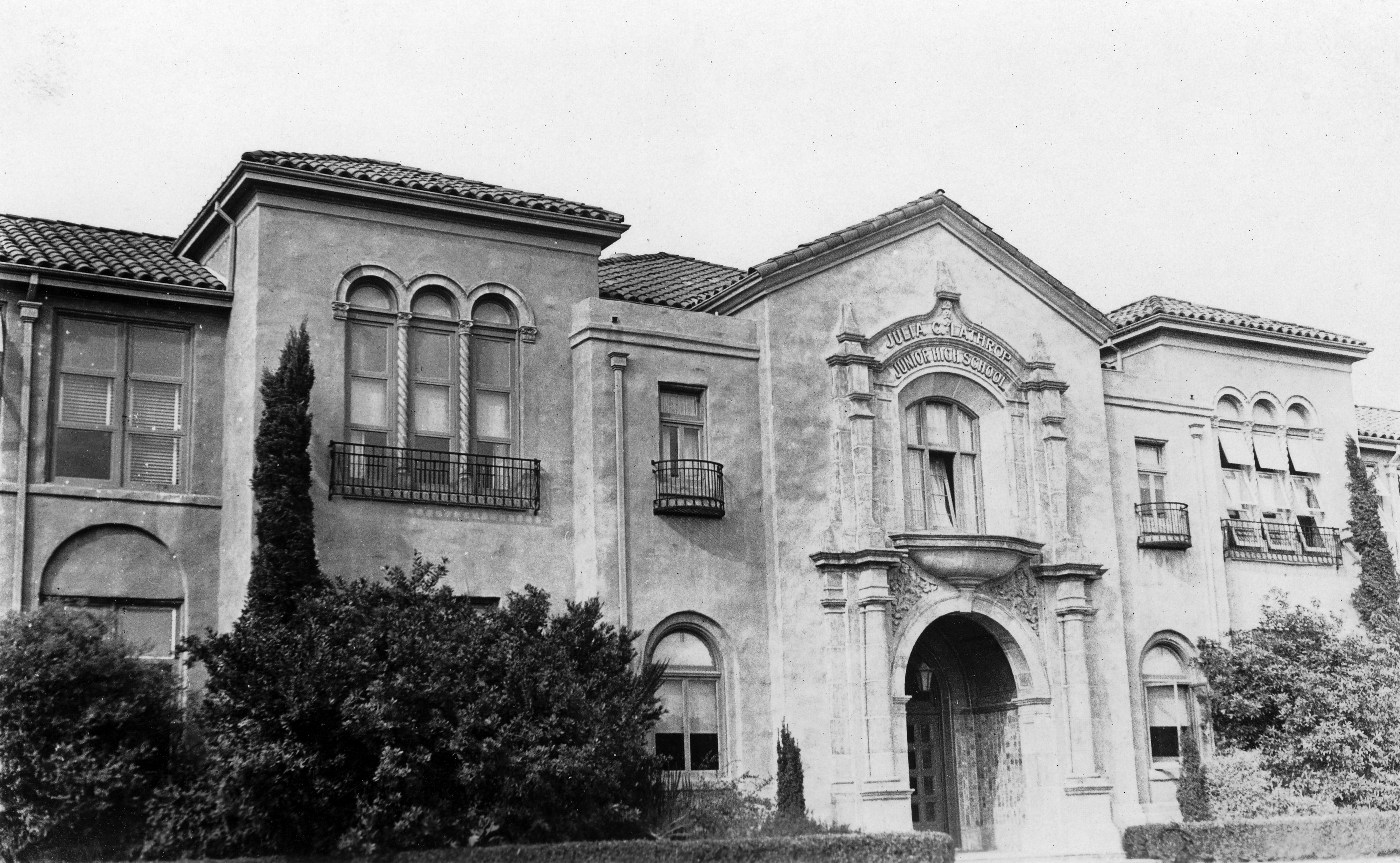 There are no known copyright restrictions on this image. All future uses of this photo should include the courtesy line, "Photo courtesy Orange County Archives." Comments are welcome after reading our Comment Policy. 95-4-22